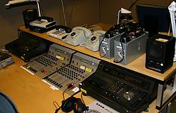 Emergency radio broadcast studio in a bunker in Denmark. Was never in use